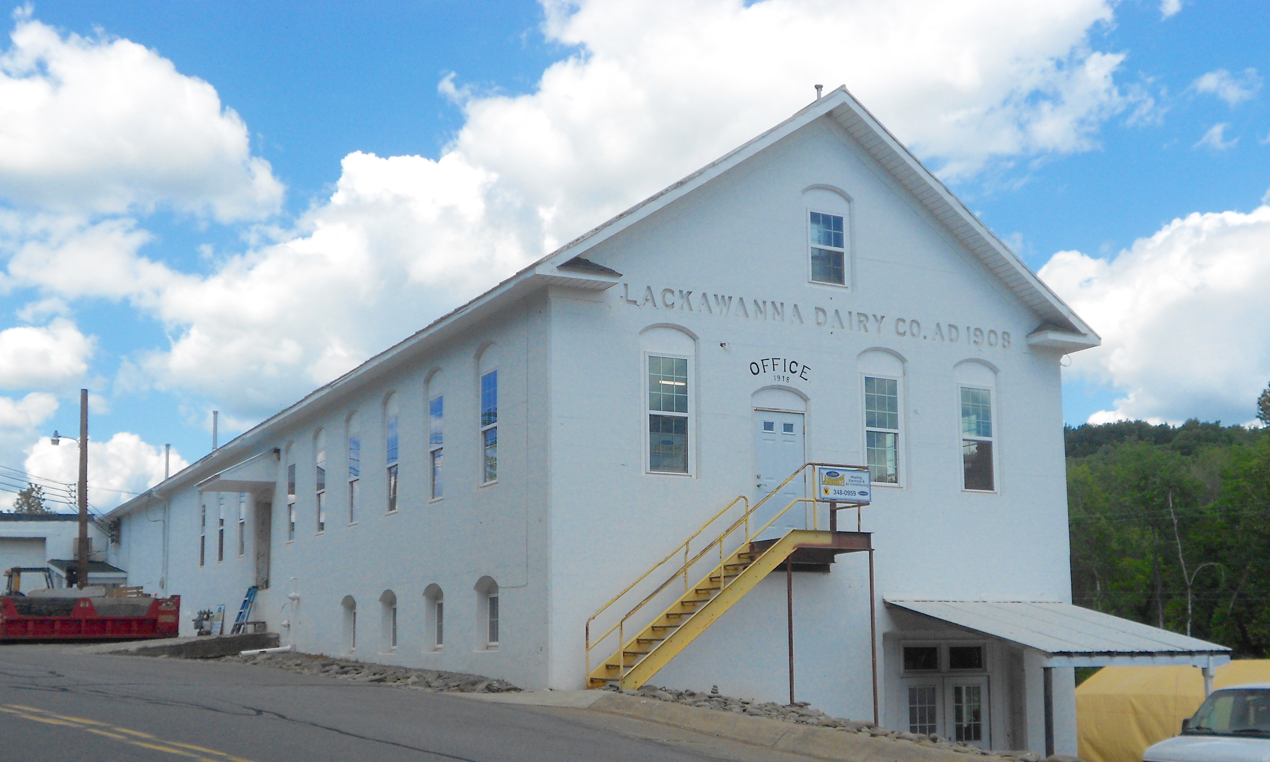 Lackawanna Dairy Building in La Plume Township, Lackawanna County, Pennsylvania. Brickwork under gable give 1908 date. Above the office door is a 1918 date